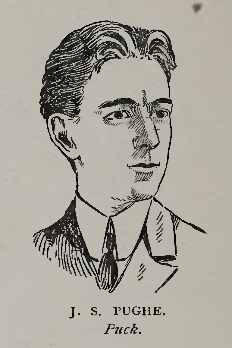 Illustrated t.p